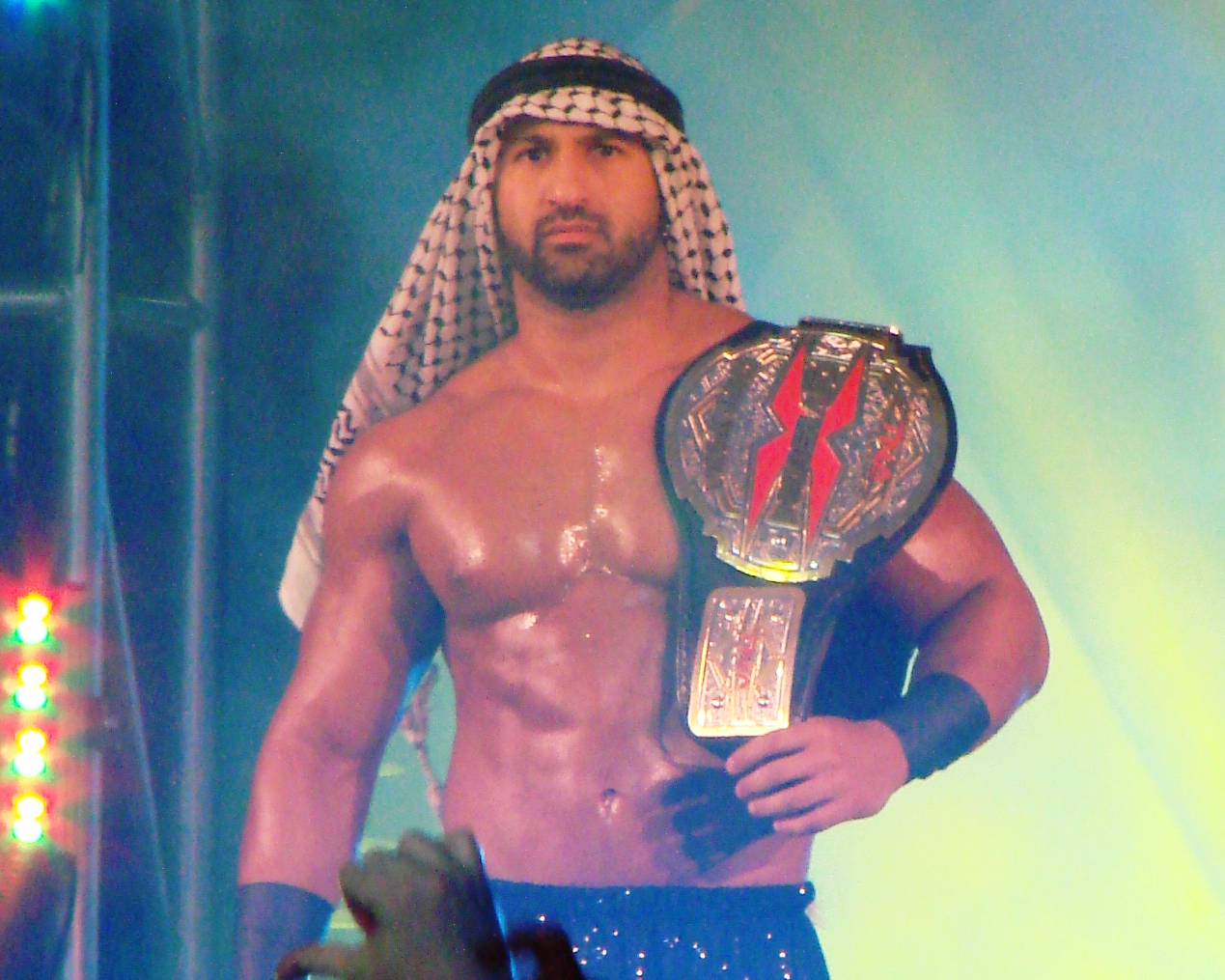 Shiek Abdul Bashir at TNA Bound for Glory IV. Sears Centre, Hoffman Estates, IL.